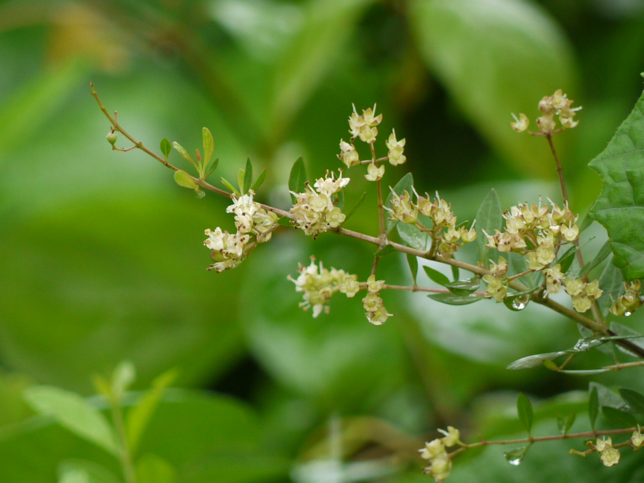 commonly known as: camphire, Egyptian privet, henna, Jamaica mignonette, mignonette tree, smooth lawsonia, Zanzibar bark • Arabic: hina, henna • Bengali: হেনা hena, মেহেদি mehedi • Burmese: dan • Creole: ene, flè jalouzi • Filipino: cinamomo •